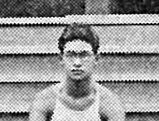 Kin'ichi Ozawa, Member of Keio Basketball Team, attended a training camp in Inuyama Town, Niwa District, Aichi Prefecture on July, 1926.